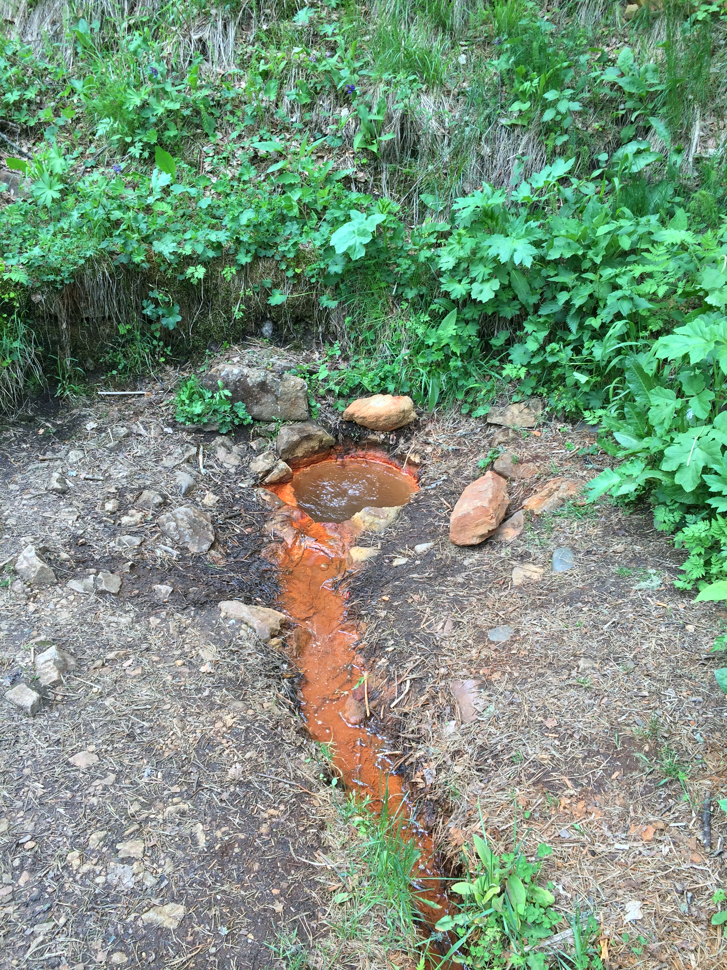 Caucasus mineral water spring